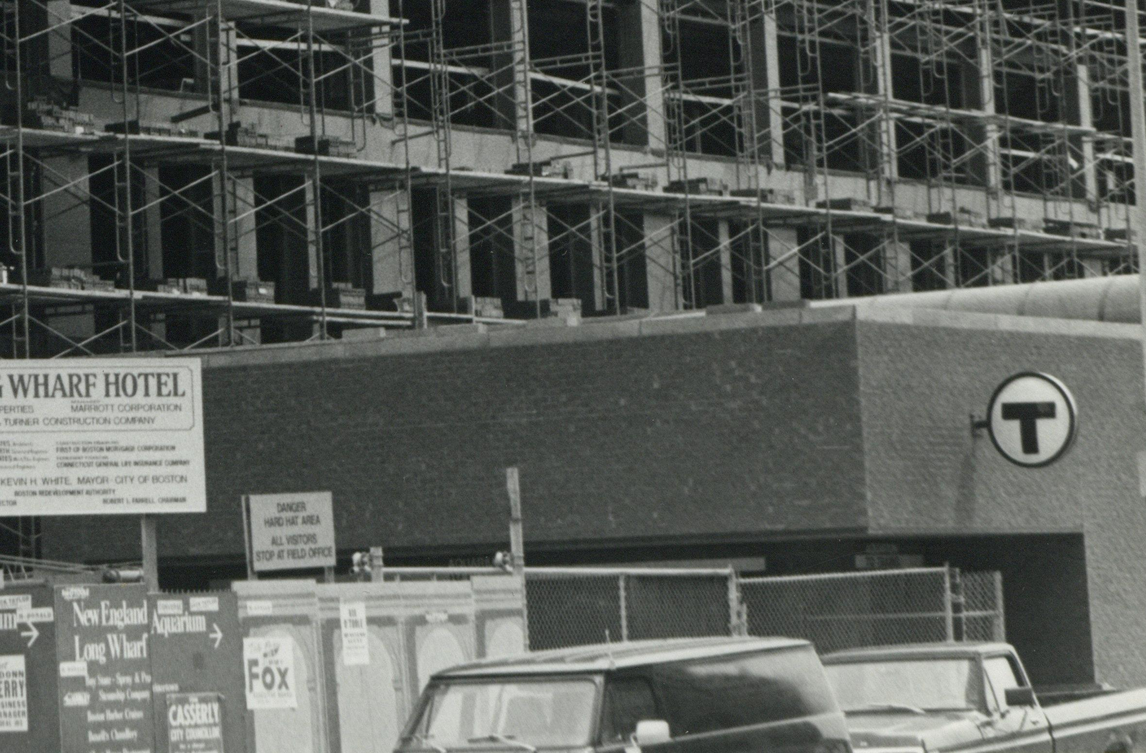 The entrance to Aquarium station around 1980